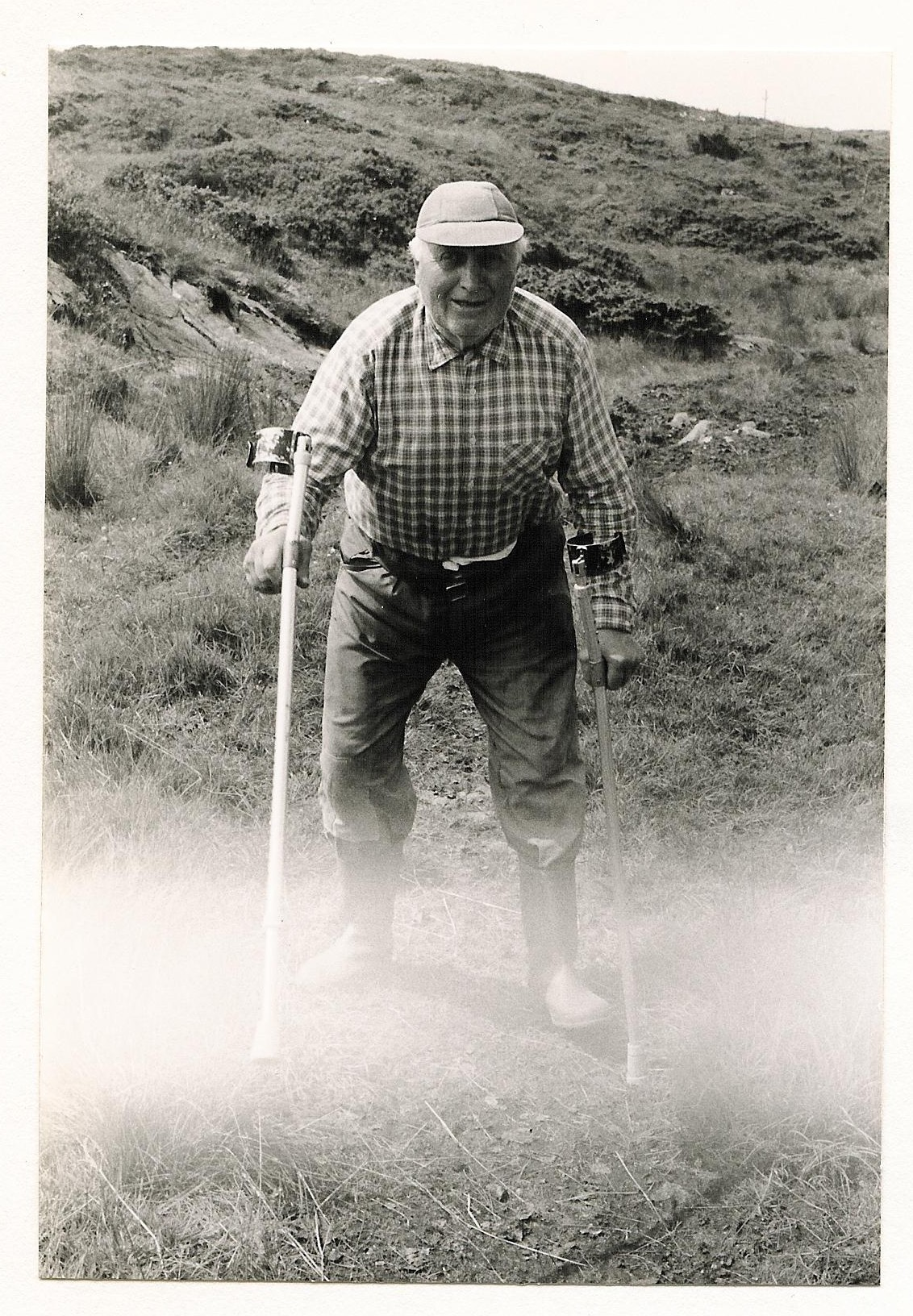 Hans Helle - summer 1984